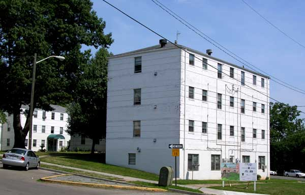 Example of one of the buildings that is part of the Roanoke Apartments (Terrace Apartments) listed on the National Register of Historic Places in Roanoke, VA, USA